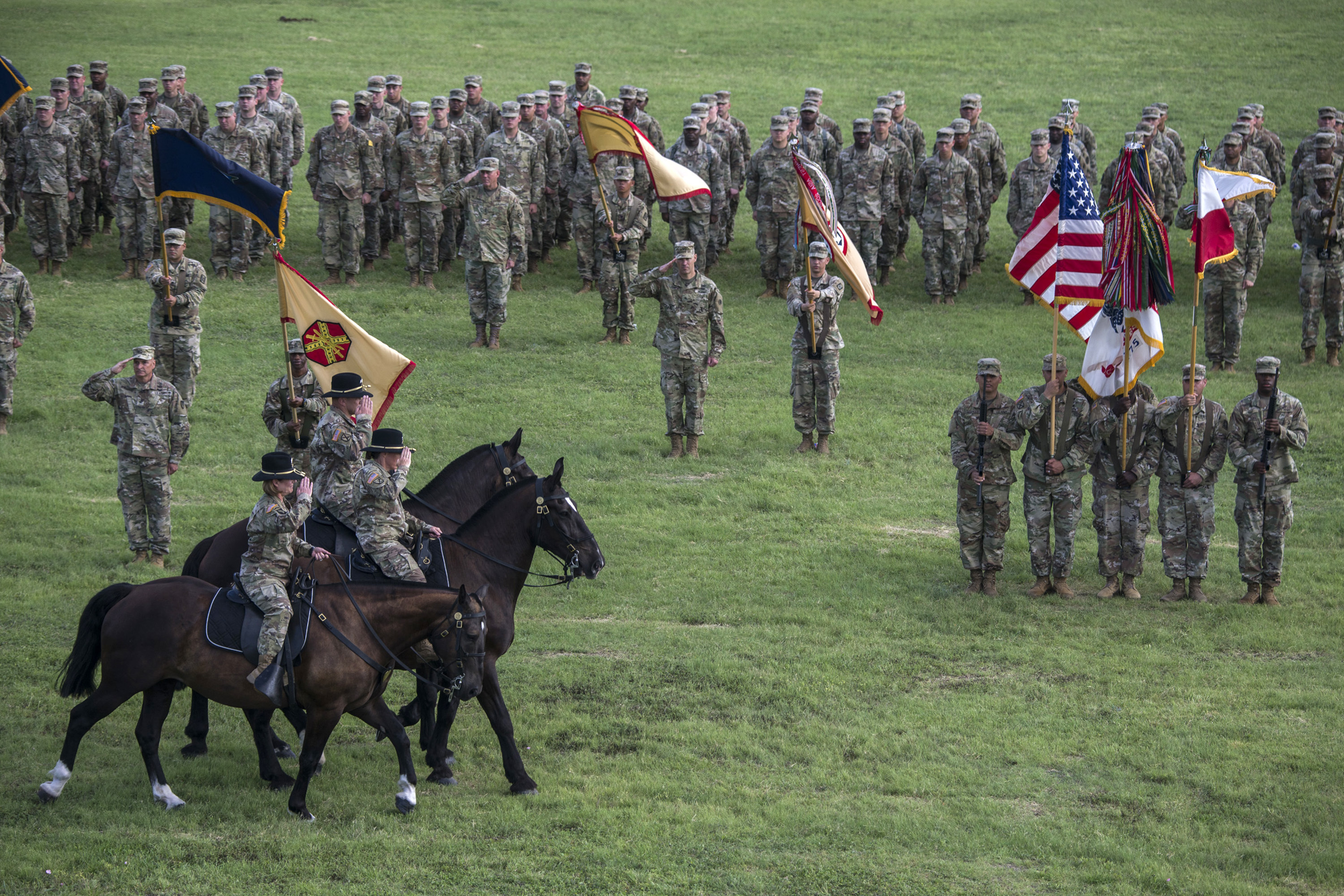 Lt. Gen. Laura J. Richardson, Col. Niave Knell, and Lt. Gen. Jeffrey S. Buchanan, the incoming CG, the Chief of Staff, and the outgoing CG, respectively of U.S. Army North troop the line on horseback at a change of command ceremony, Fort Sam Houston.